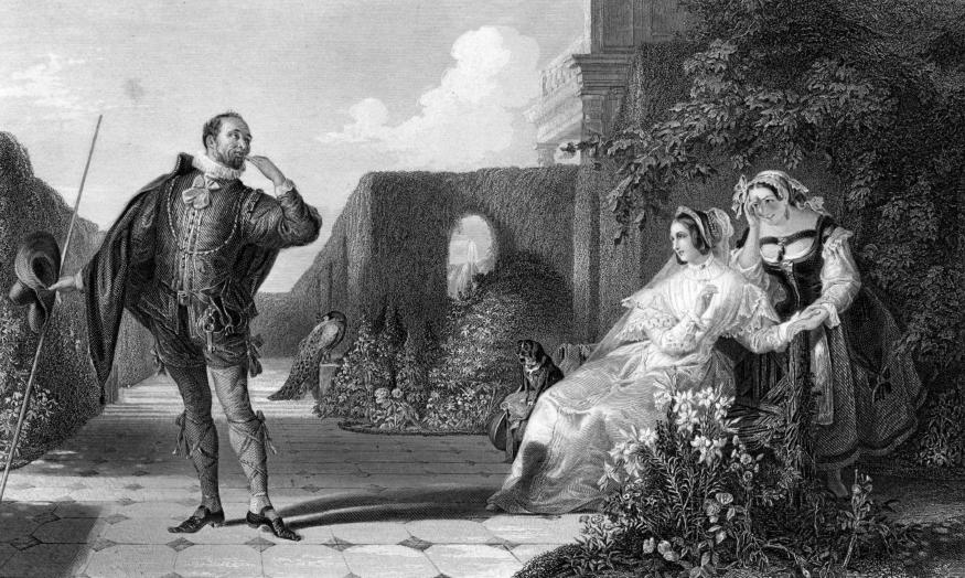 Malvolio and the Countess